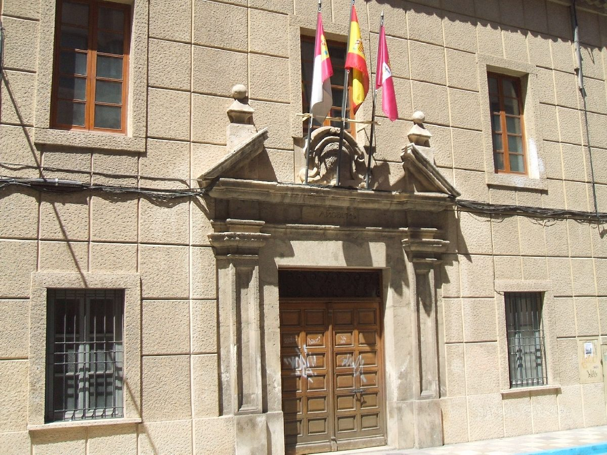 Antiguo Convento de la Encarnación, en Albacete